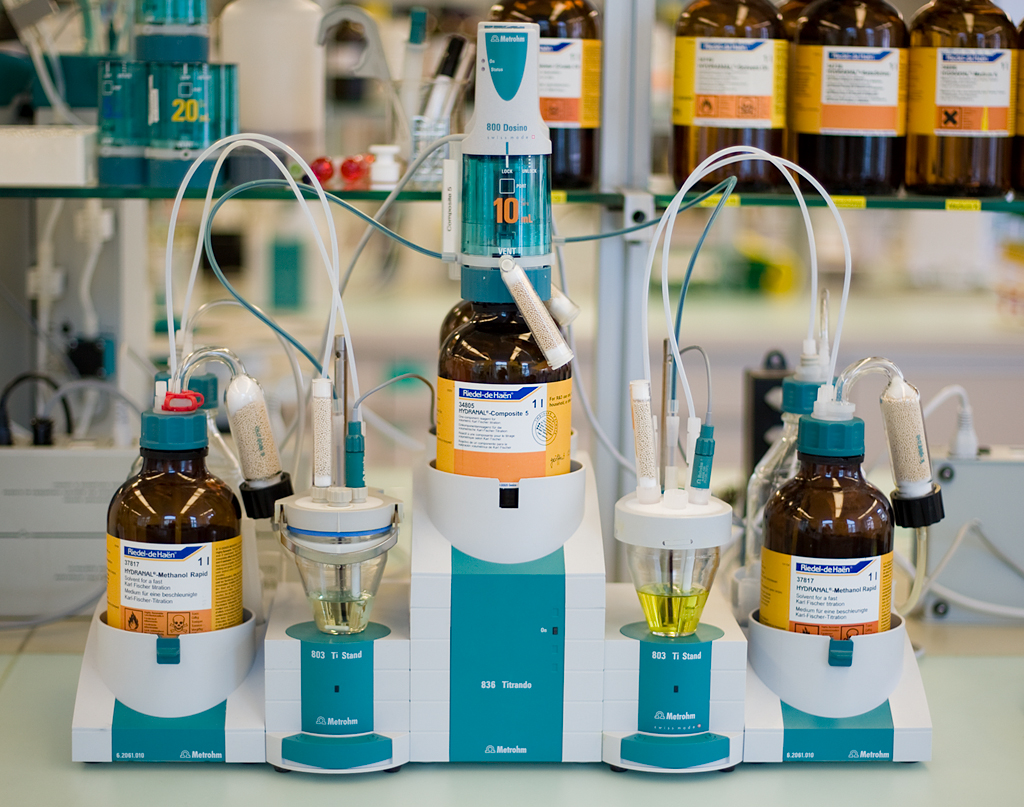 KF Titrator manufactured by Metrohm